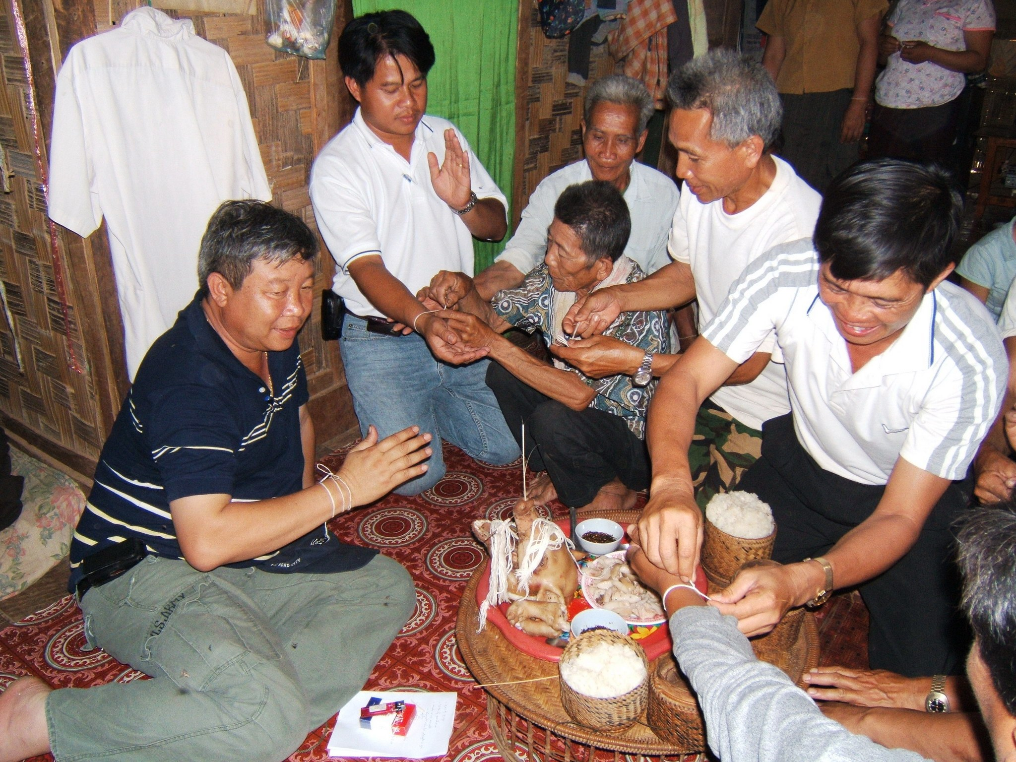 A greeting ceremony of Laotian, Ban Thasala, muang Khamkeuth, Borikhamxay province